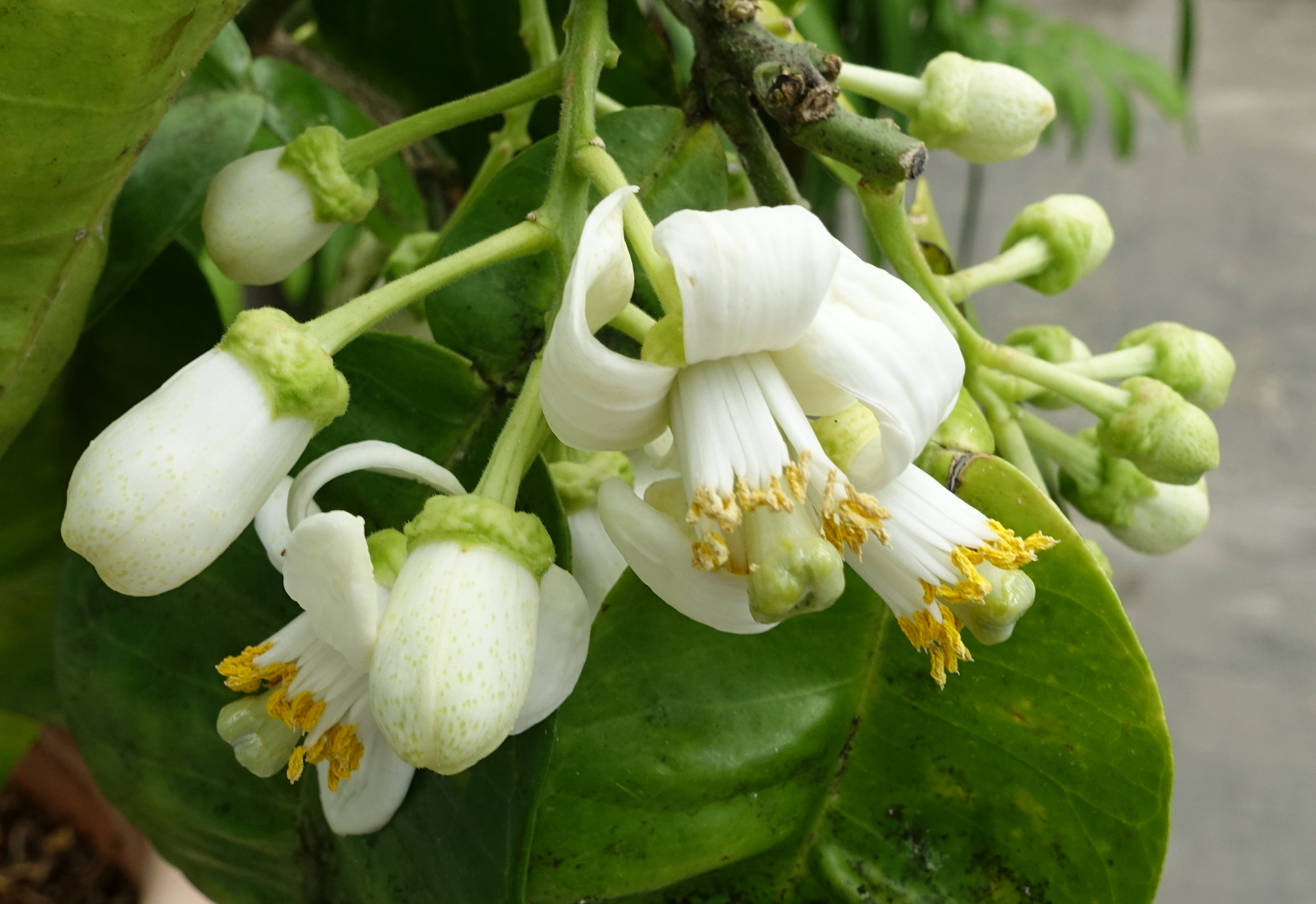 Botanical specimen in the Lyman Plant House, Smith College, Northampton, Massachusetts, USA.